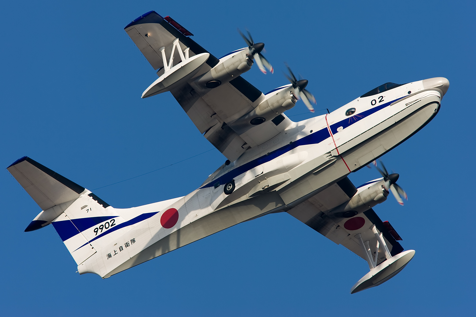 ShinMaywa US-2 taking off at Atsugi